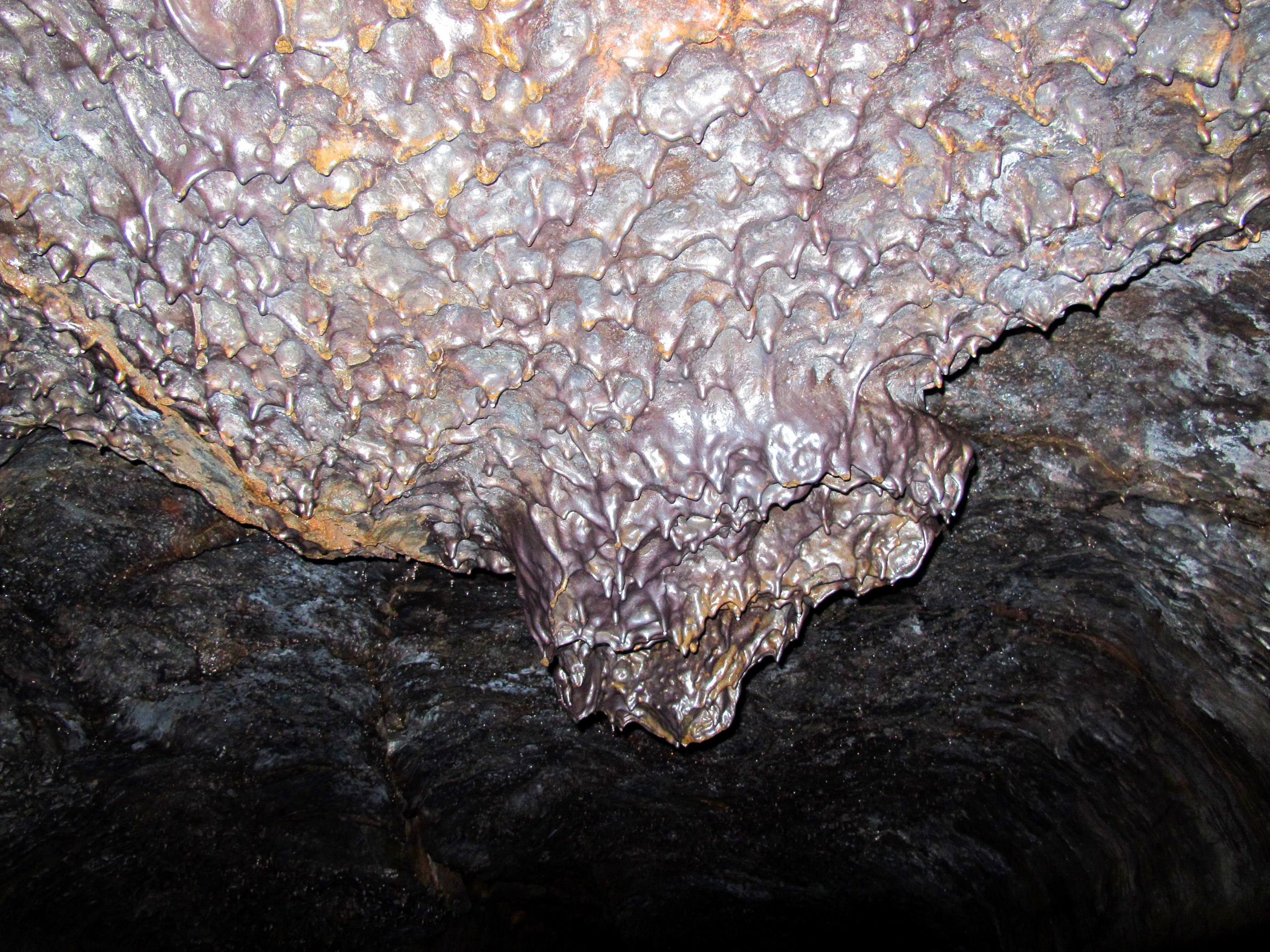 Leiðarendi lava tube in Iceland.